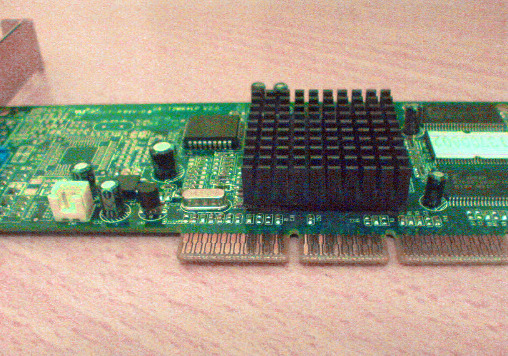 Video card